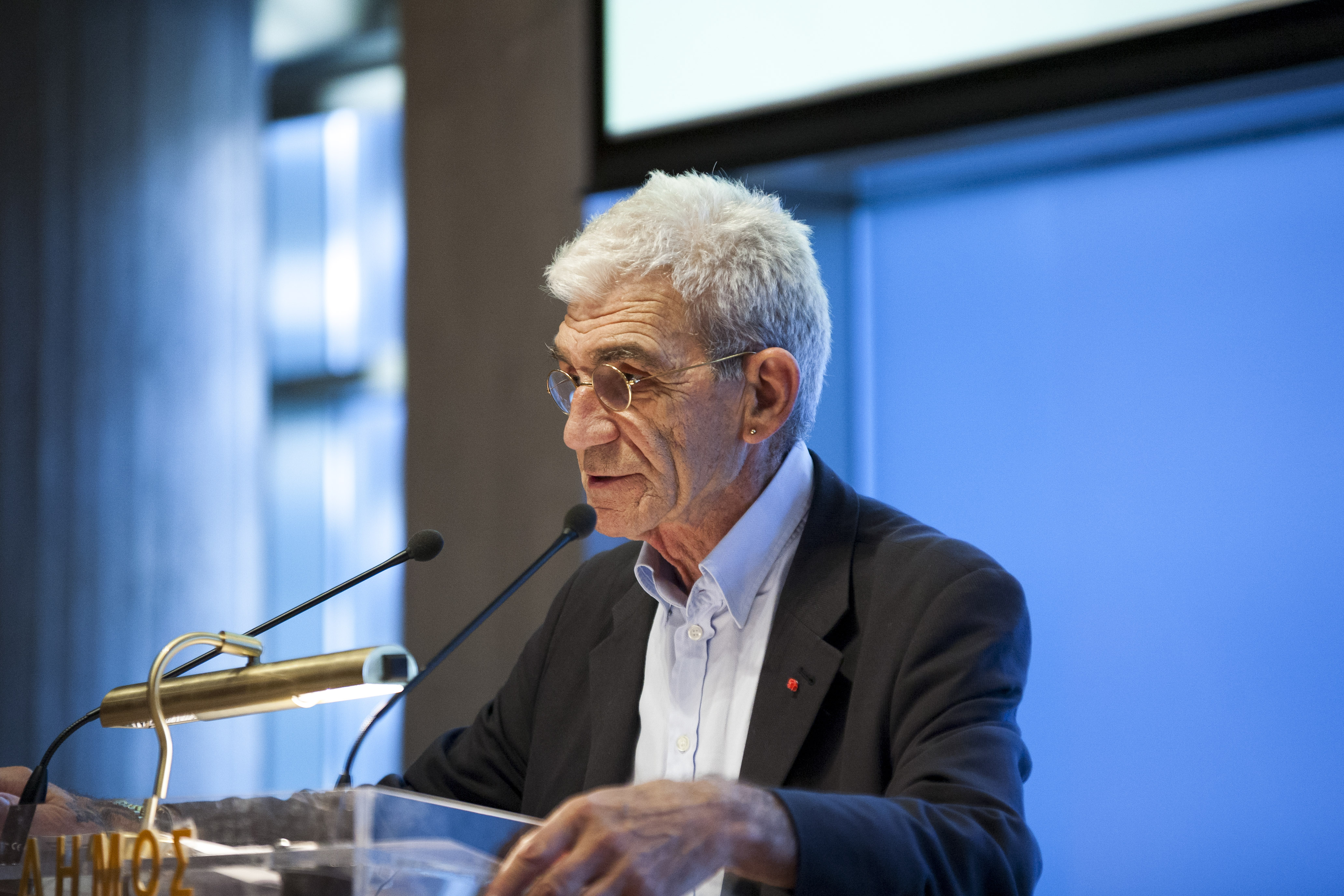 Heinrich Boll Stiftung - Towards a Green, Open and Inclusive City. Conference, June 28-29, 2012, City Hall of Thessaloniki.